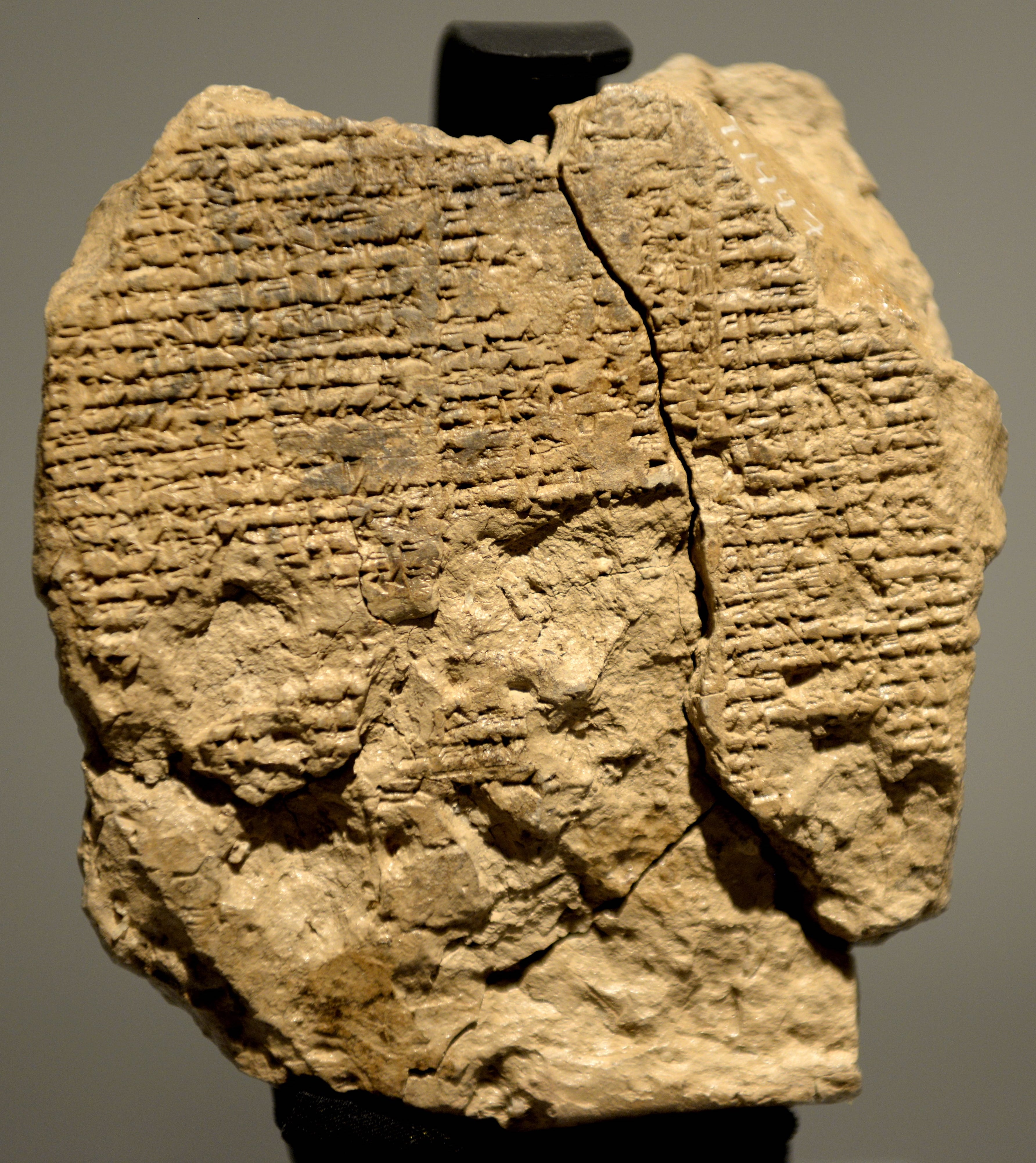 Reverse side of the newly discovered tablet V of the Epic of Gilgamesh. It dates back to the old Babylonian period, 2003-1595 BCE and is currently housed in the Sulaymaniyah Museum, Iraq. It narrates how Gilgamesh and Enkidu entered into cedar forest and how they dealt with Humbaba.